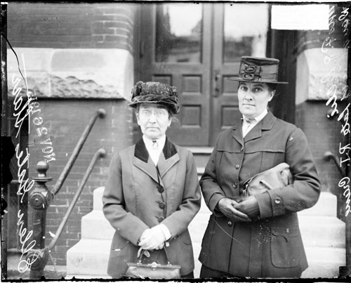 Ellen Gates Starr and Mrs. F. R. Lillie